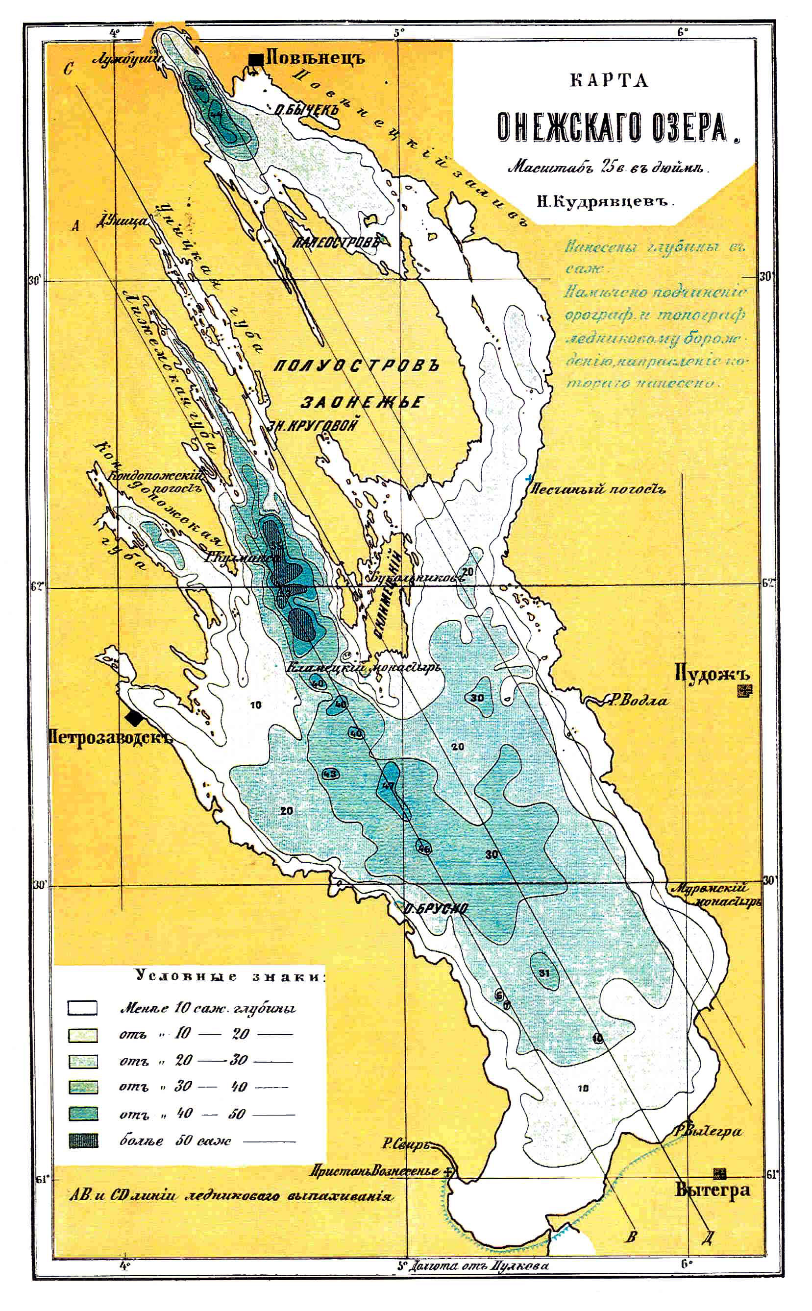 Illustration from Brockhaus and Efron Encyclopedic Dictionary (1890—1907)